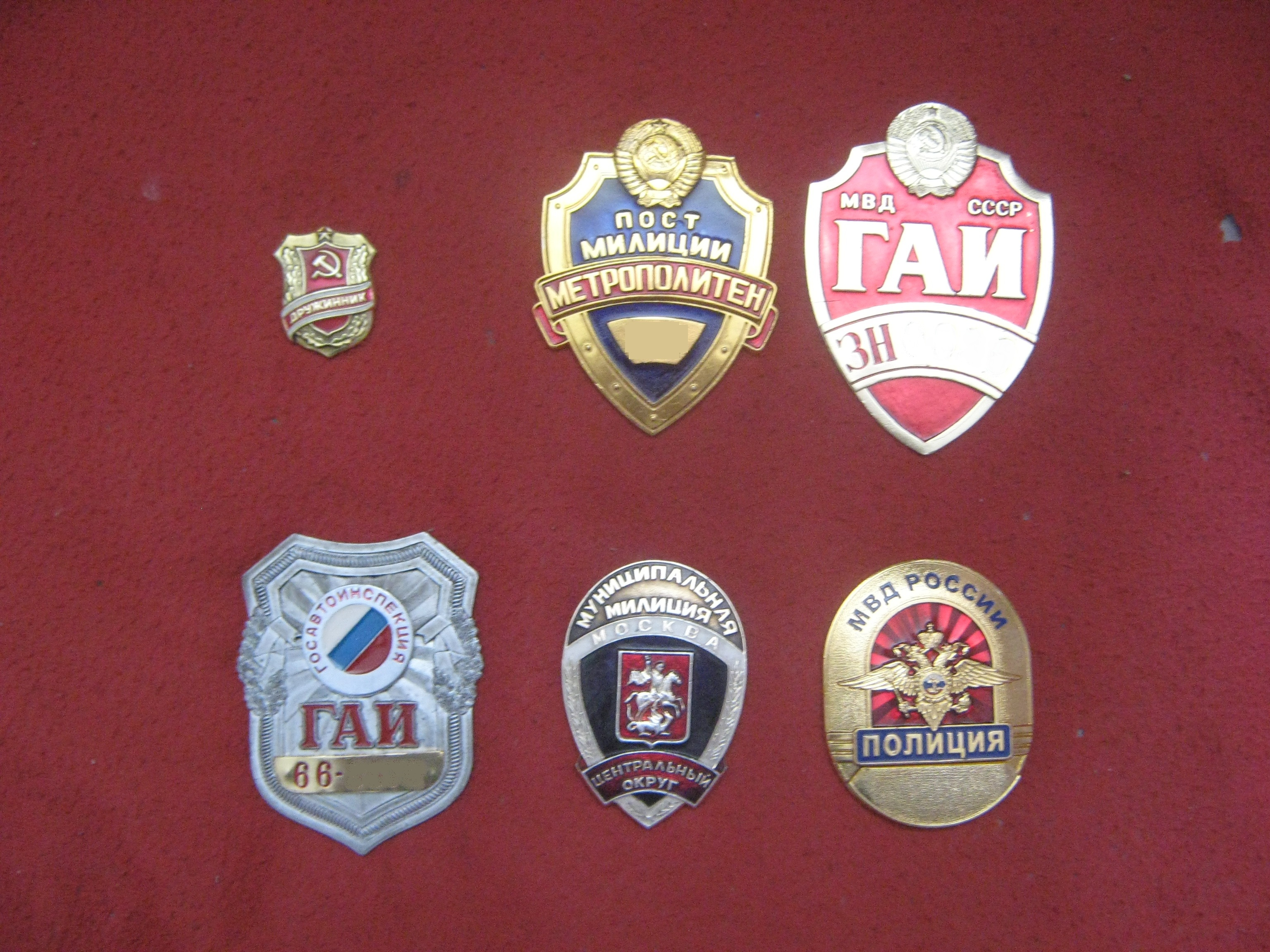 Militia and Police badges of the Soviet Union and Russia.